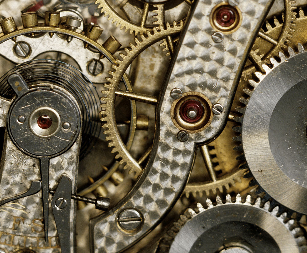 Innards of a mechanical watch. Original caption: 13 Juin 1999 P.A.T. Montréal.P.Q.